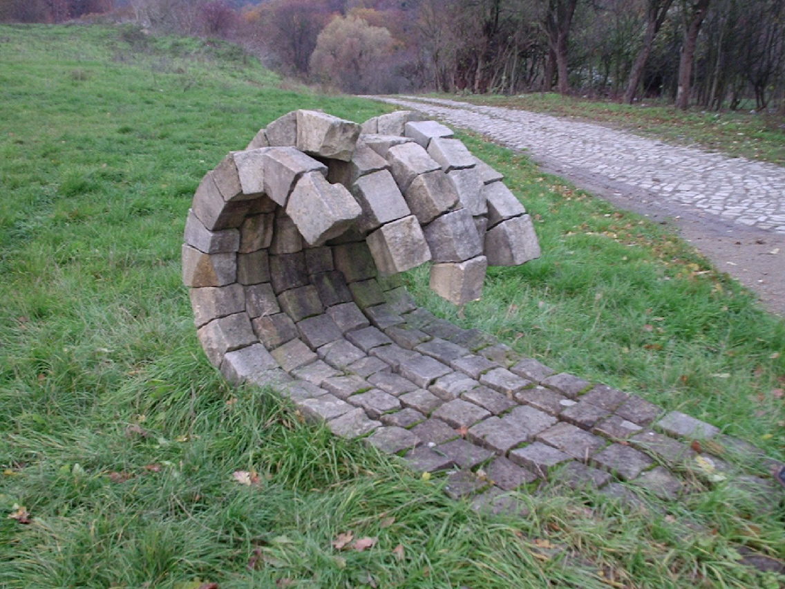 A Monument in Heßwinkel.